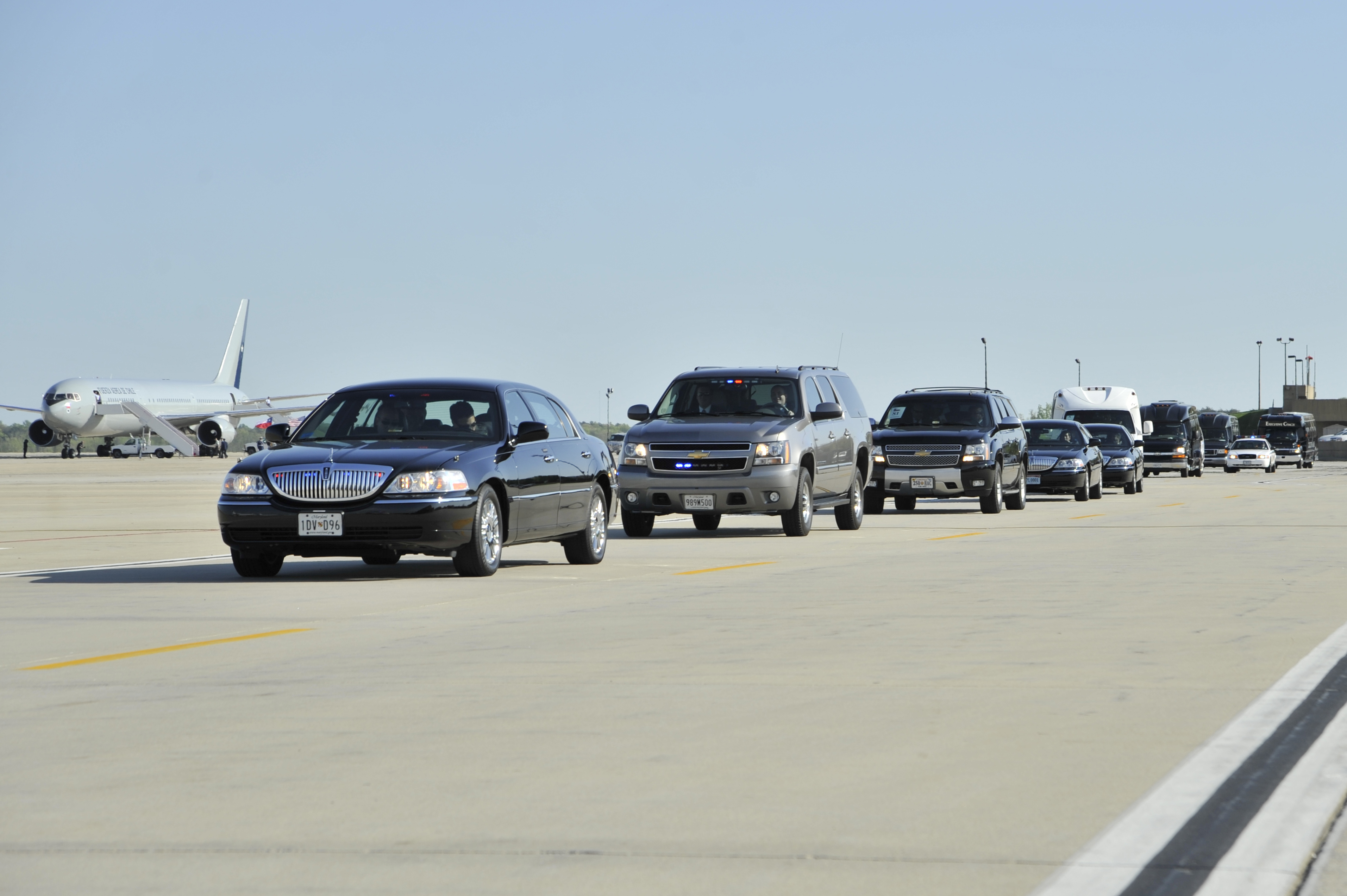 Chilean President Sebastián Piñera's motorcade leaves the flight line at Joint Base Andrews, Md., April 11, 2010. Pinera is attending the Nuclear Security Summit hosted by President Barack Obama in Washington, D.C.